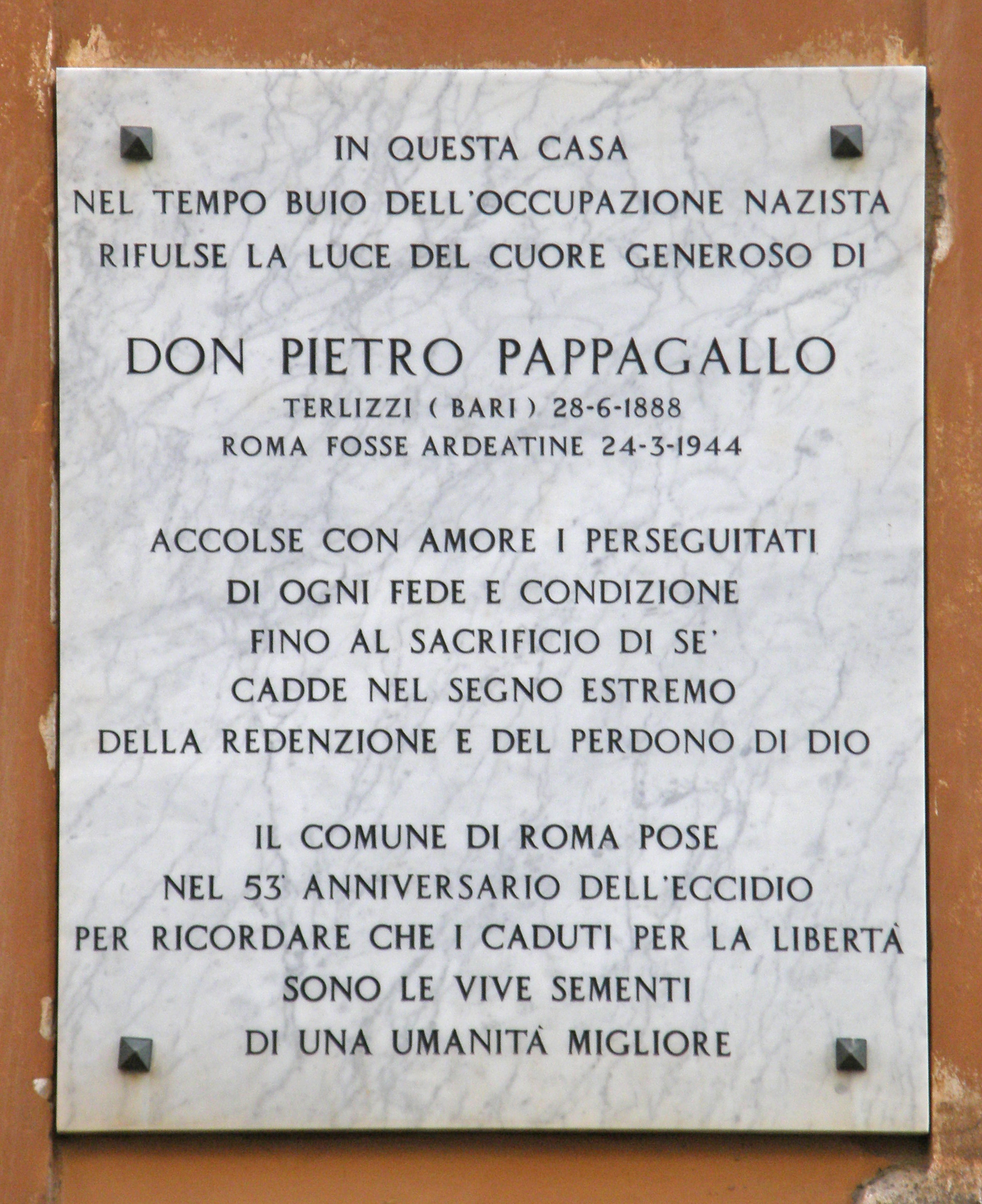 Rome, Italy - Via Urbana, altezza Via Ruinaglia - Commemorative plaque devoted to Don Pietro Pappagallo